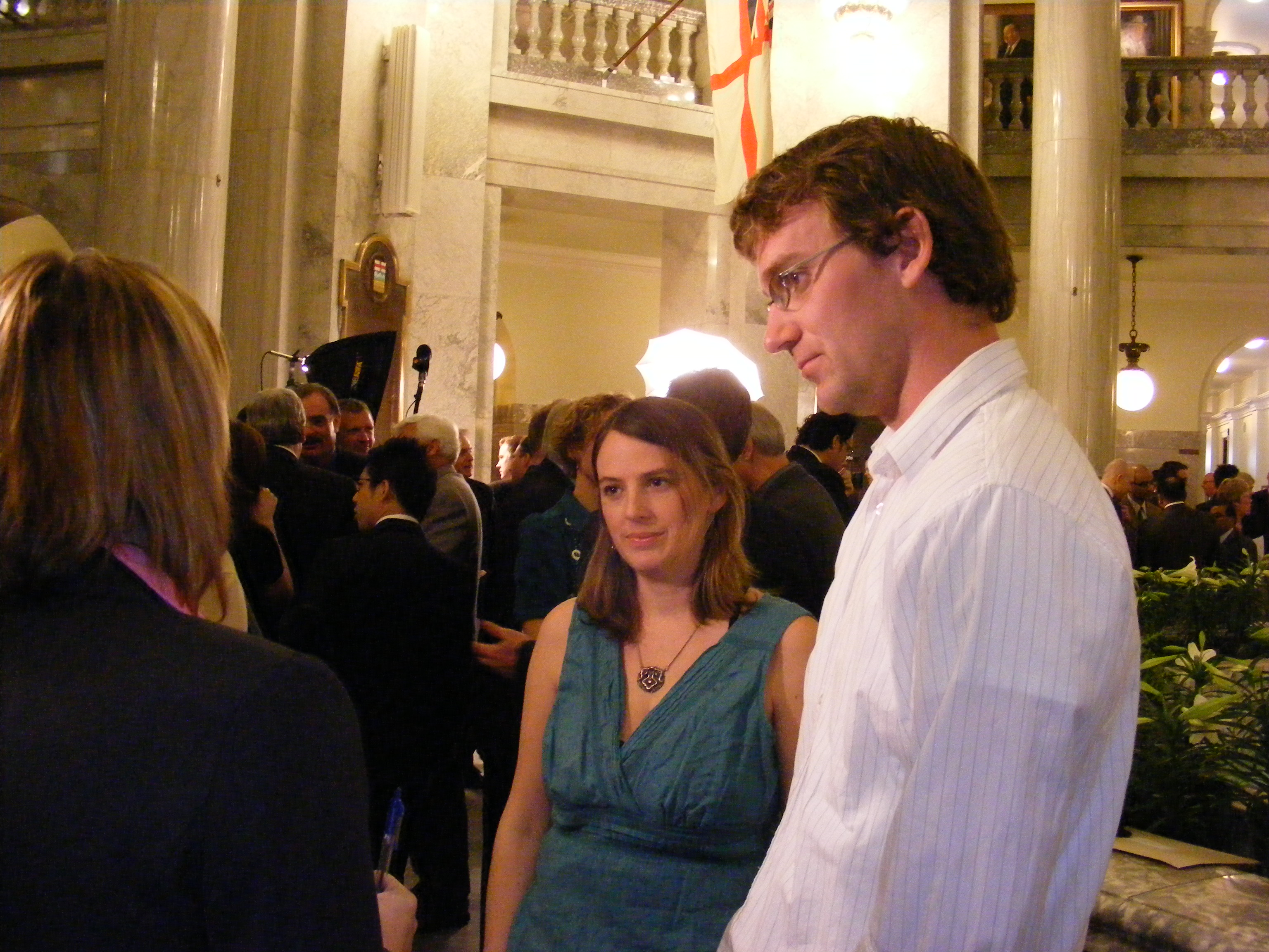 Lindsay Telfer (Sierra Club) and Mike Hudema (Greenpeace).